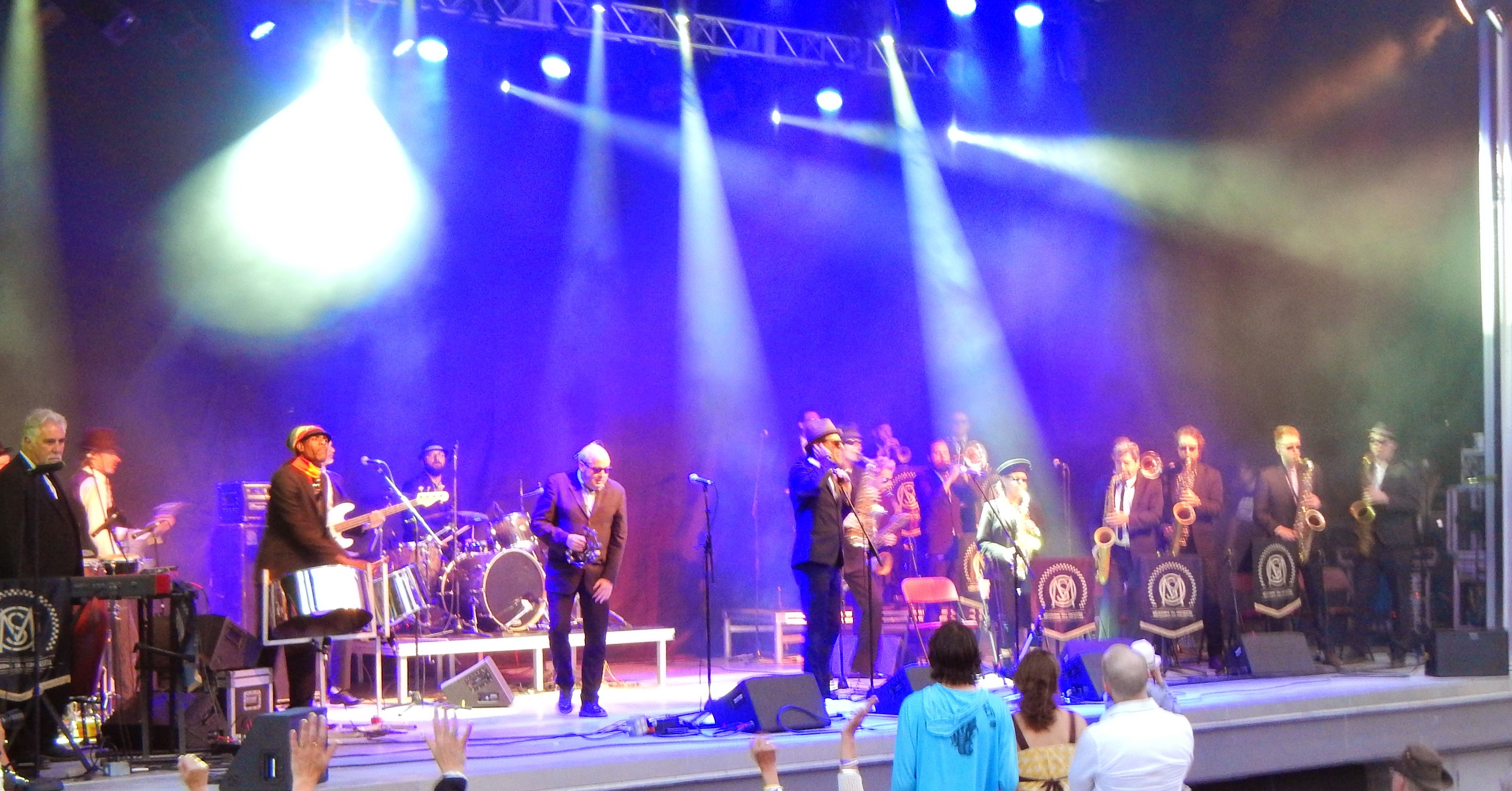 Performing at Northern Lights Festival Boreal on the evening of Saturday, July 6, 2014, Bell Park, Sudbury, Ontario, Canada